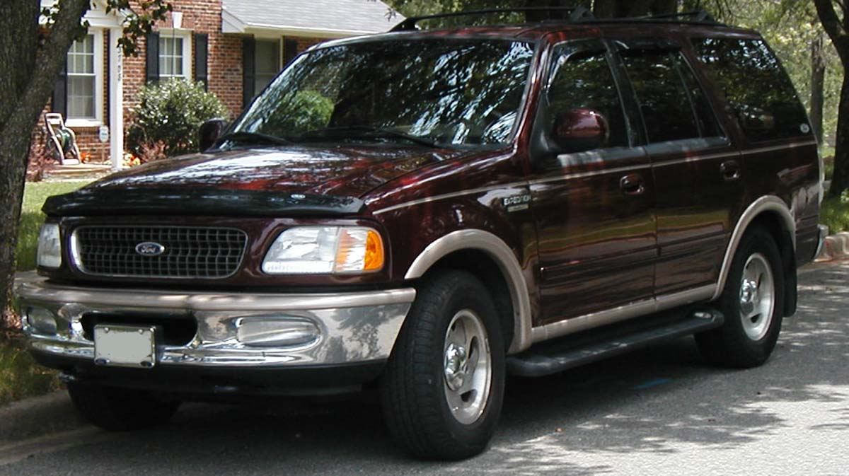 1997-2002 Ford Expedition photographed in USA.